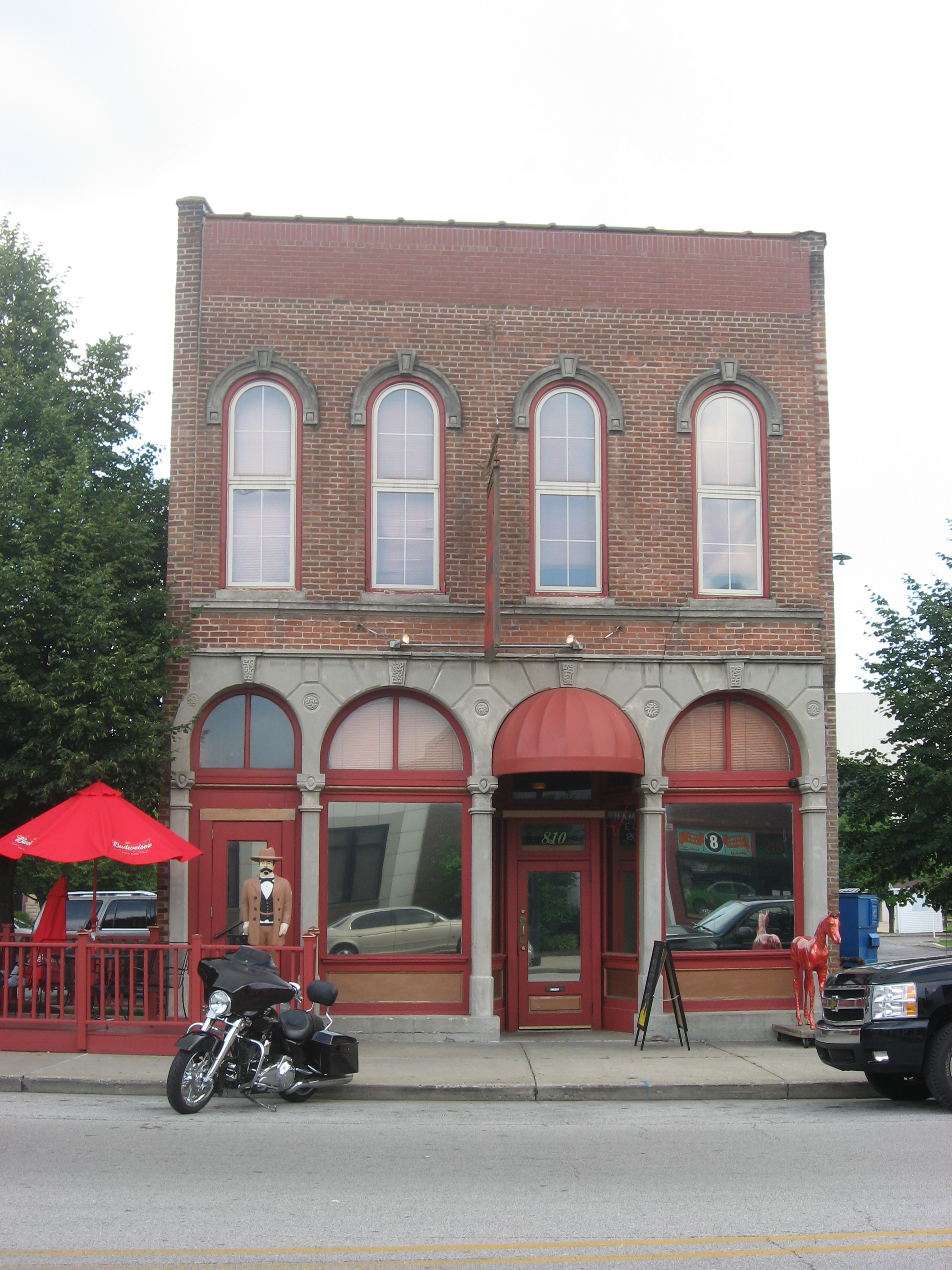 Front of the Building at 810 Wabash Avenue in Terre Haute, Indiana, United States. Built in 1870, it is listed on the National Register of Historic Places.